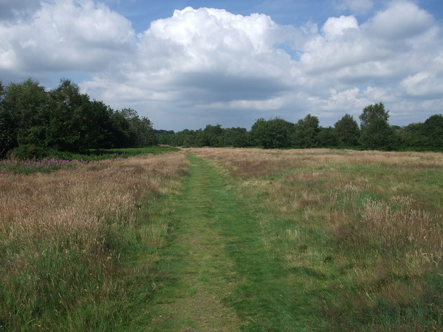 Offa's Dyke Path through the Old Racecourse, Oswestry Sited on a plateau 1000 feet above sea level. The last meeting took place in 1848. For history